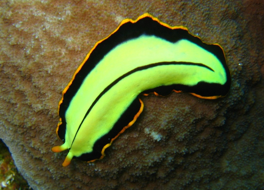 The flatworm Pseudoceros dimidiatus. North Horn, Osprey Reef, Coral Sea.